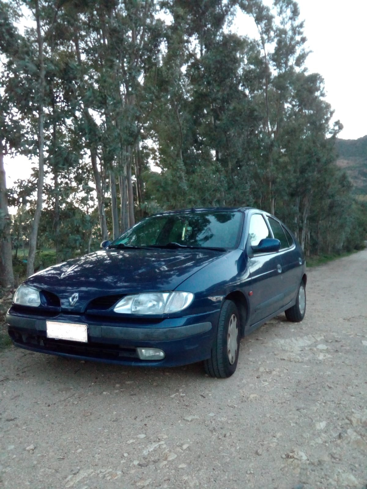 View of a Mègane 1.6e 90CV